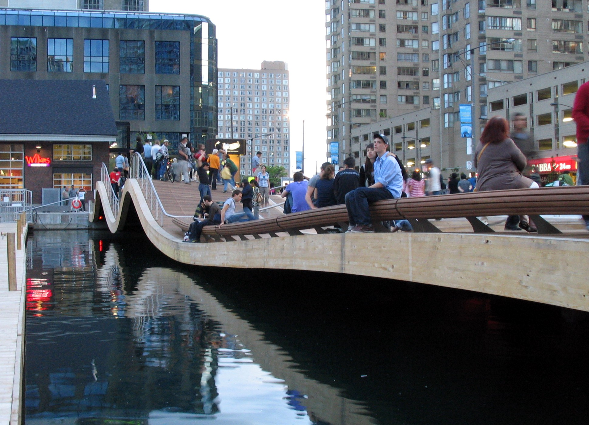 Relaxing on the WaveDeck on a summer evening.